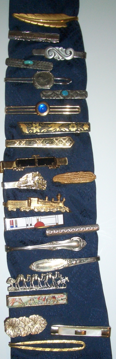 Tie clip collection photographed by myself